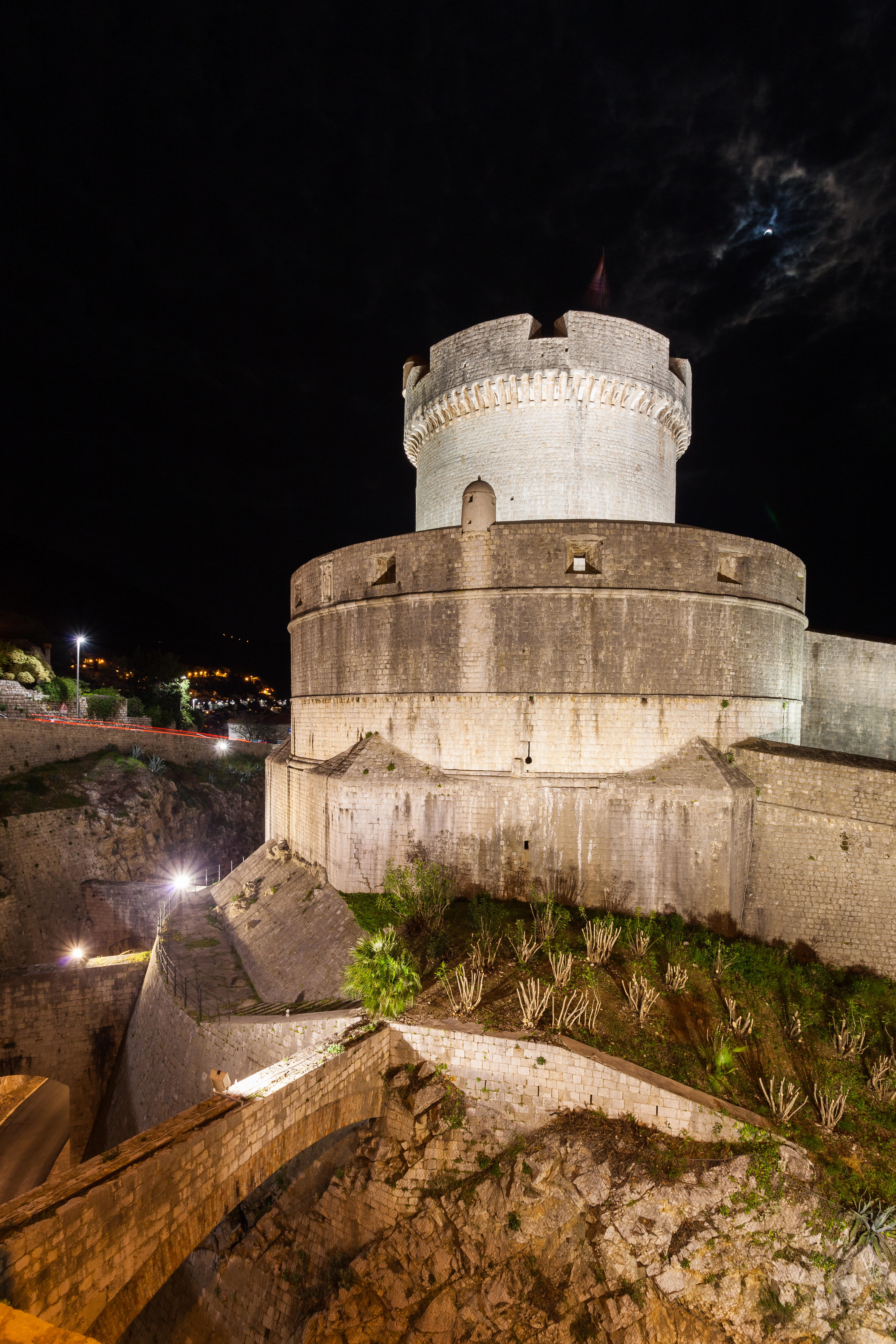 Old city of Dubrovnik, Croatia